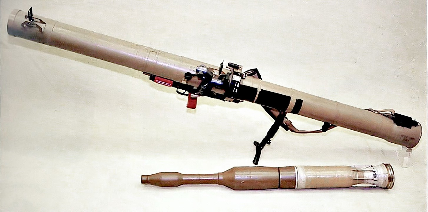 A RPG-29 missile launcher and PG-29 projectile.